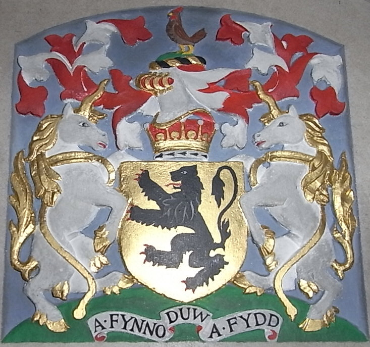 Heraldic achievement of Mathew, Earls Landaff, 1987 monument in Llandaff Cathedral.